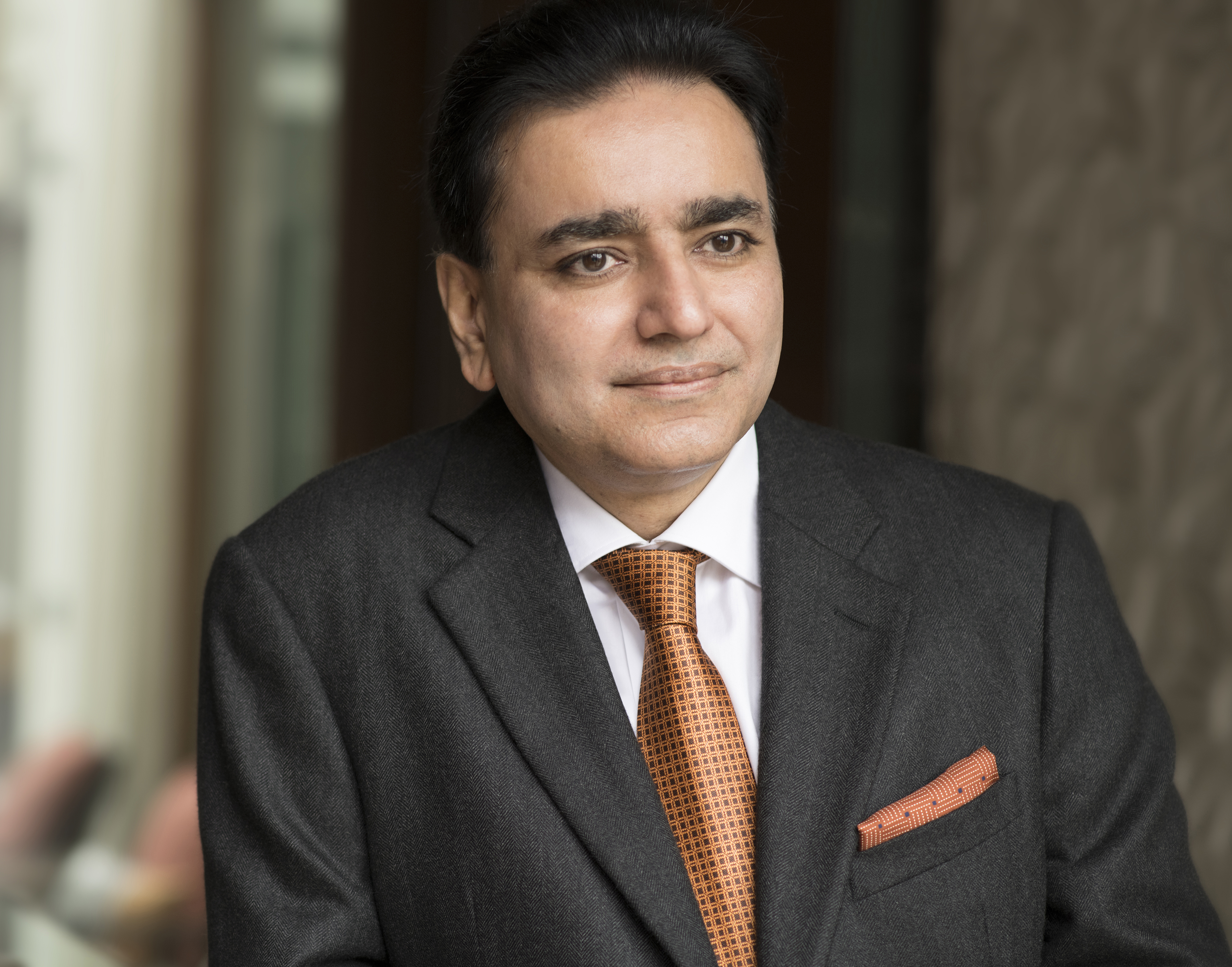 Shravan Gupta